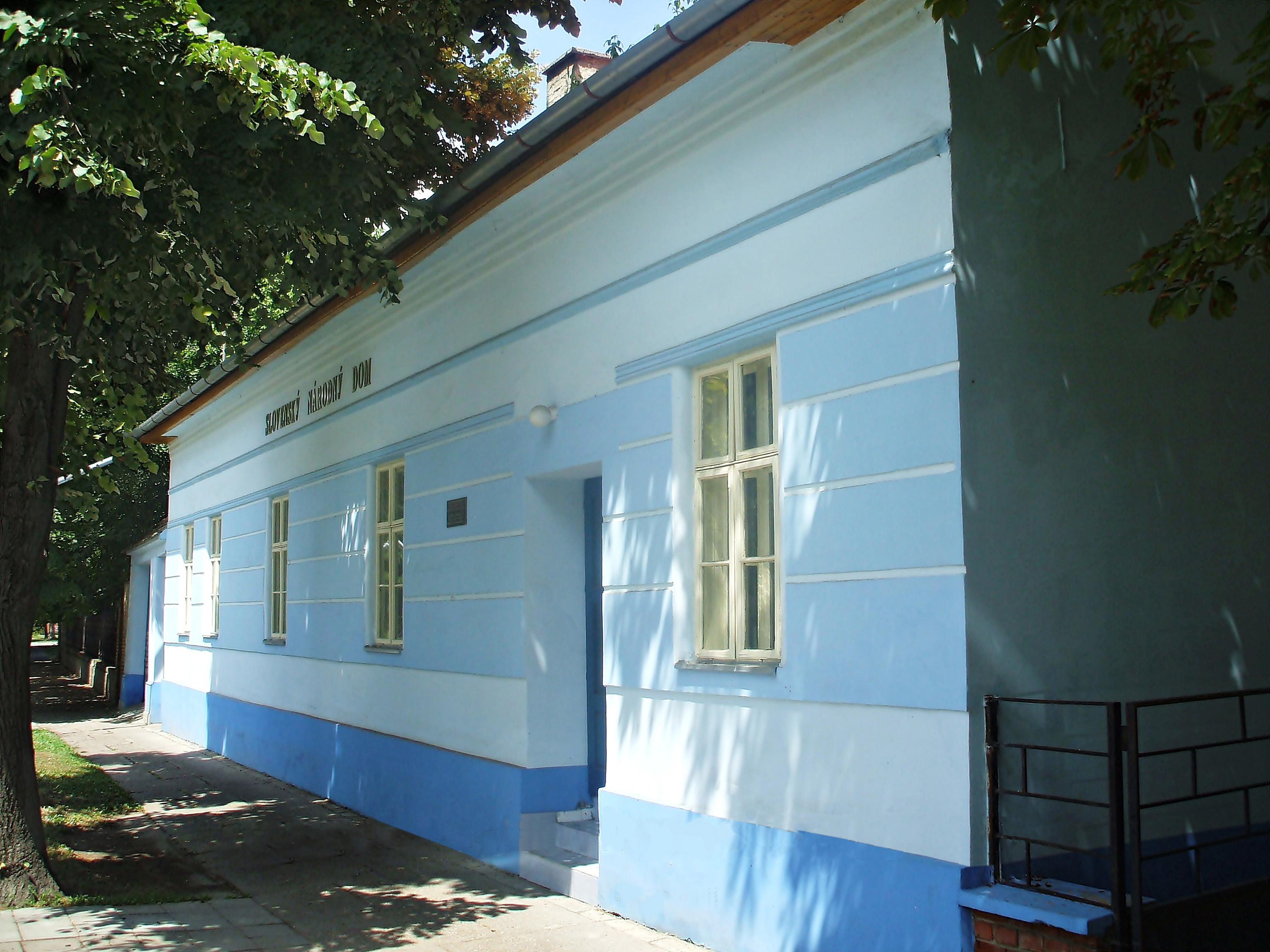 Slovak National Hall